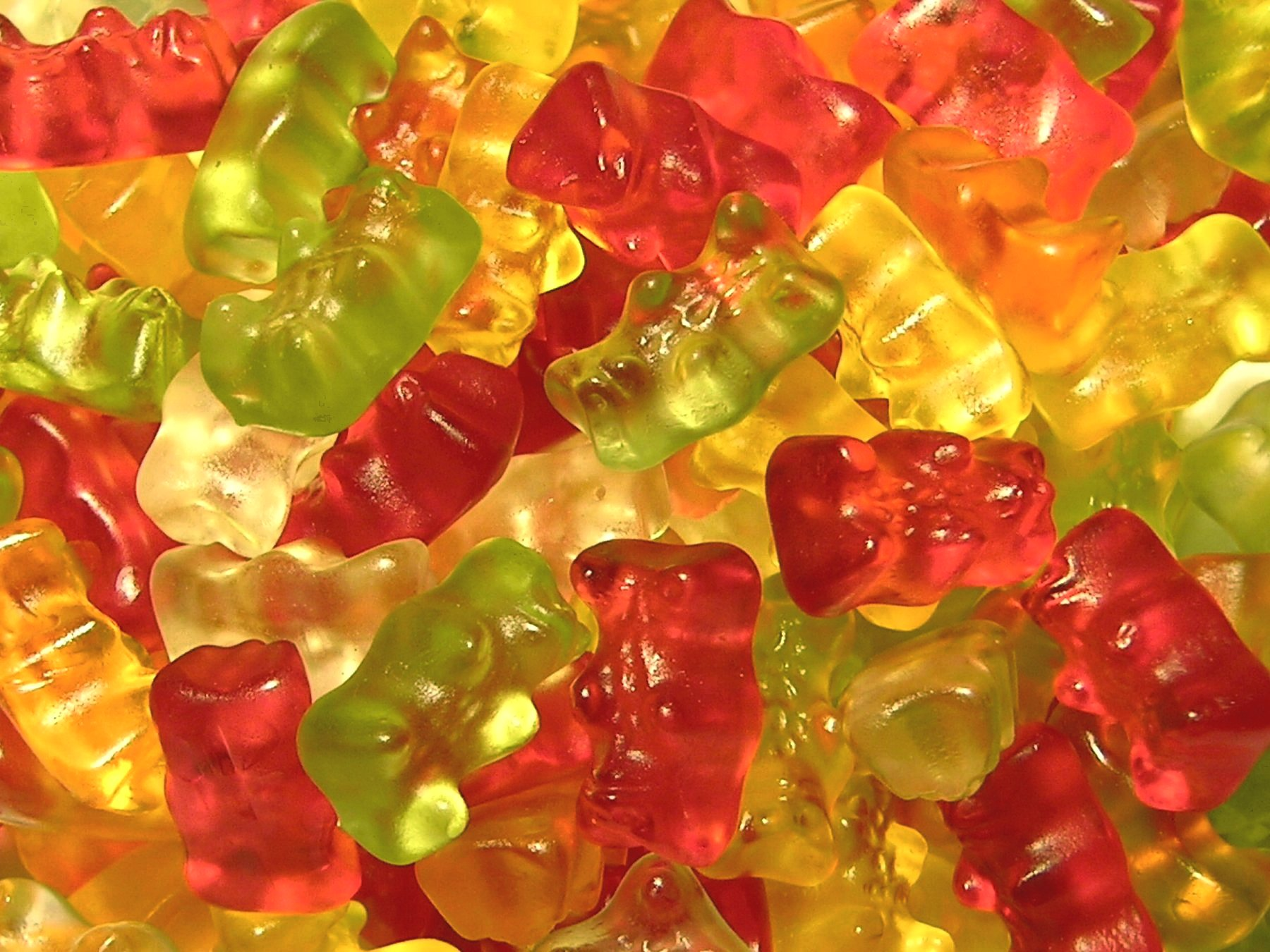 A heap of HARIBO gummy bears.